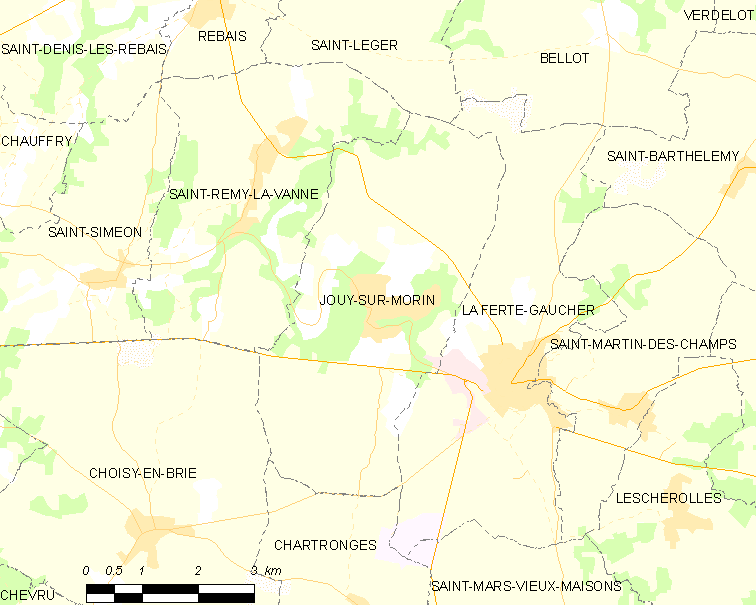 Map of French municipality Jouy-sur-Morin